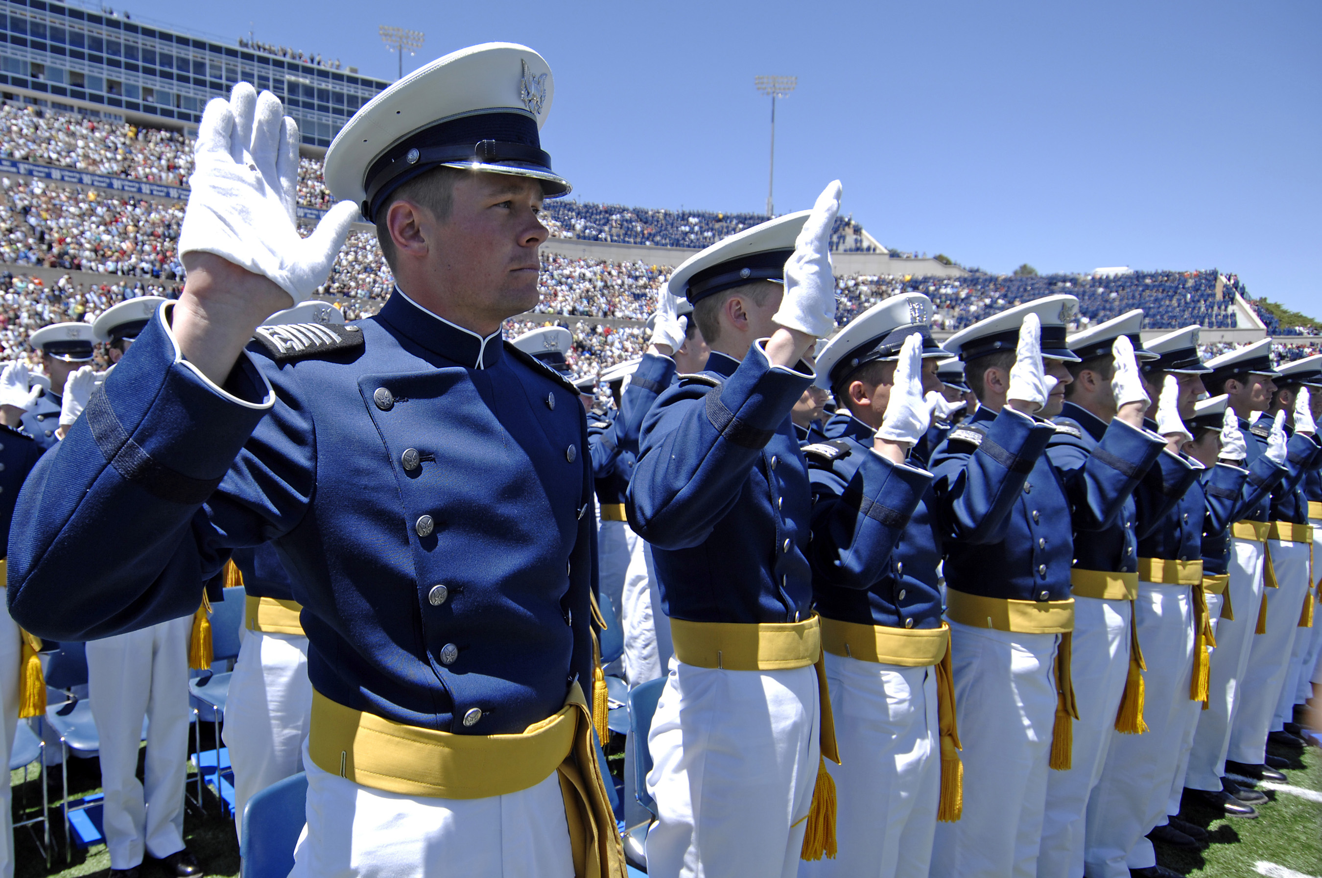 Cadet Bradely Dewees recites the oath of office along with his fellow Air Force Academy cadets on his way to becoming a second lieutenant during the graduation ceremony May 27 2009 in Falcon Stadium. Lieutenant Dewees was the top graduate in the Class of 2009.